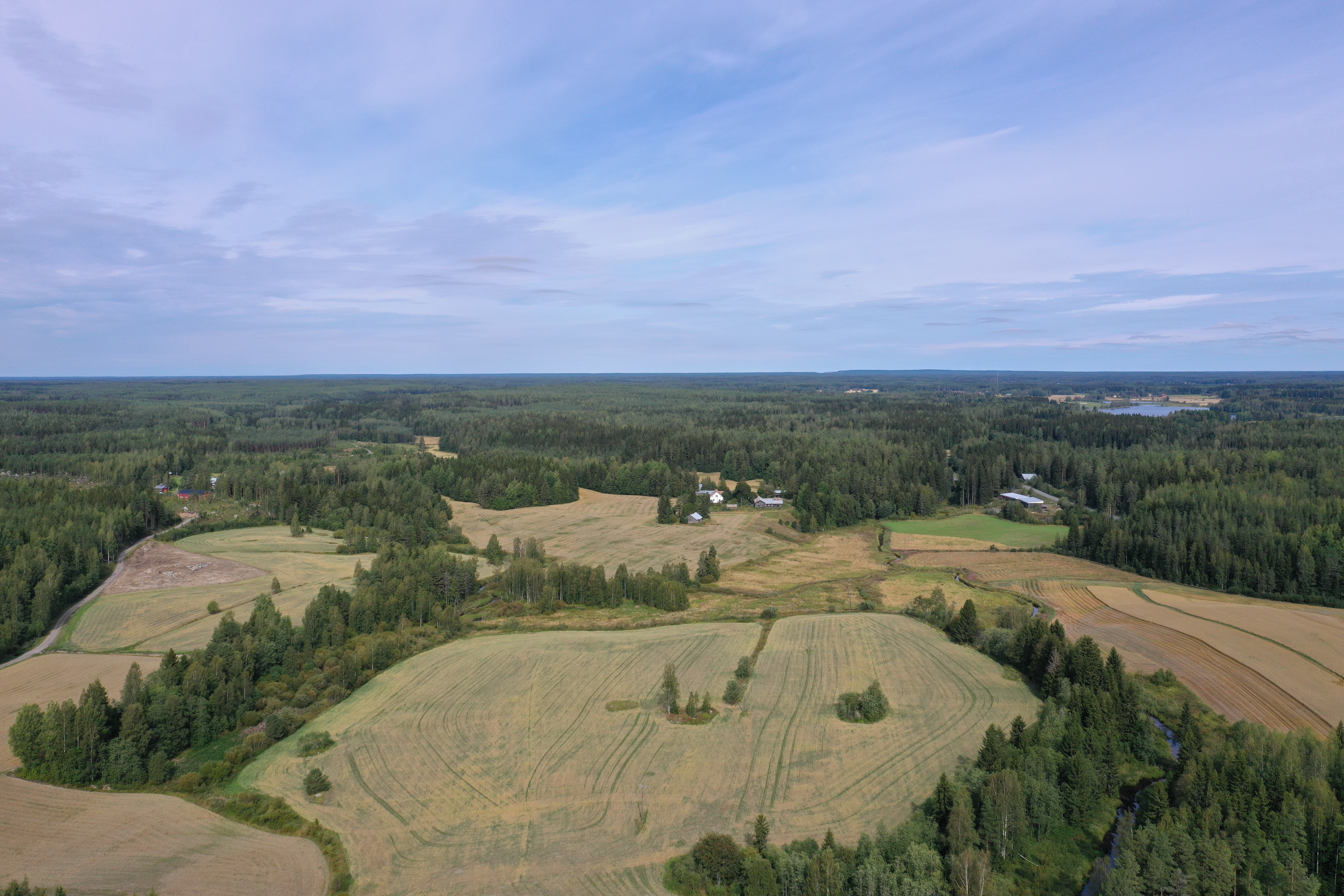 Kukkula Stone Age Settlement Location in Sastamala, Finland. This settlement location is in Sastamala, Finland at Sävijoki River Valley. It was identified as a prehistoric "population centre" during an archaelogical inventory in 2007-2008. The inventory states that "apparently this valley, a narrow bay of the prehistoric Baltic sea, with its numerous narrow straits and sounds has been very suitable for hunting, fishing and building settlements." This settlement was identified for the first time already in 1910, as later state archaelogist Dr. Julius Ailio came to check on in after several prehistoric artefacts were found in the area. This is a photo of a monument in Finland identified by the URL